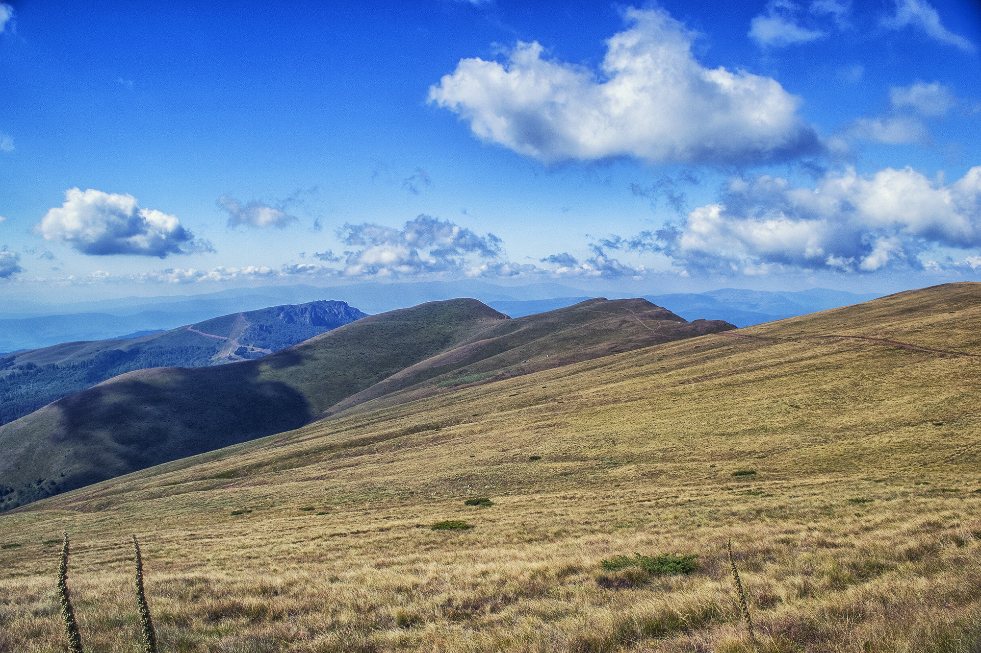 Landscape from the Stara mountain.